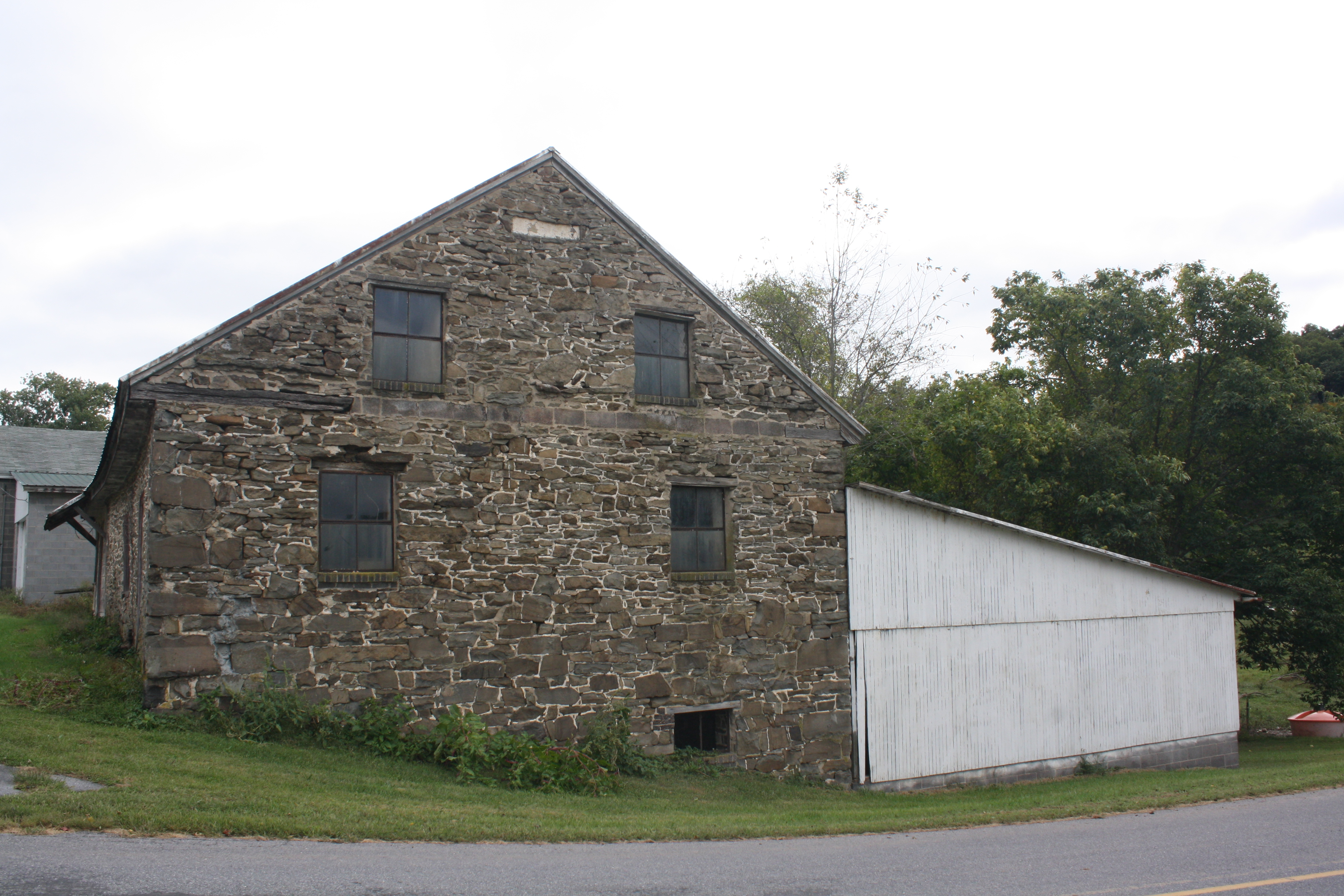 Kauffman Mill, also known as Spengler Mill, is a historic grist mill located in Upper Bern Township, Berks County, Pennsylvania.